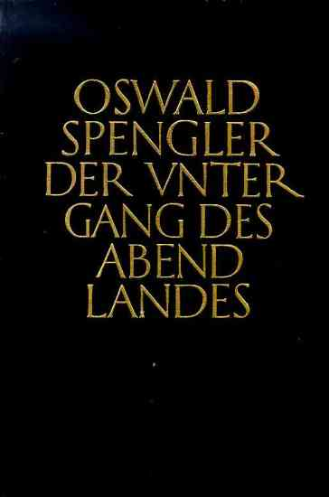 Cover of vol II of Oswald Spengler's Decline of the West. Published by C.H. Beck, Munich, 1922.